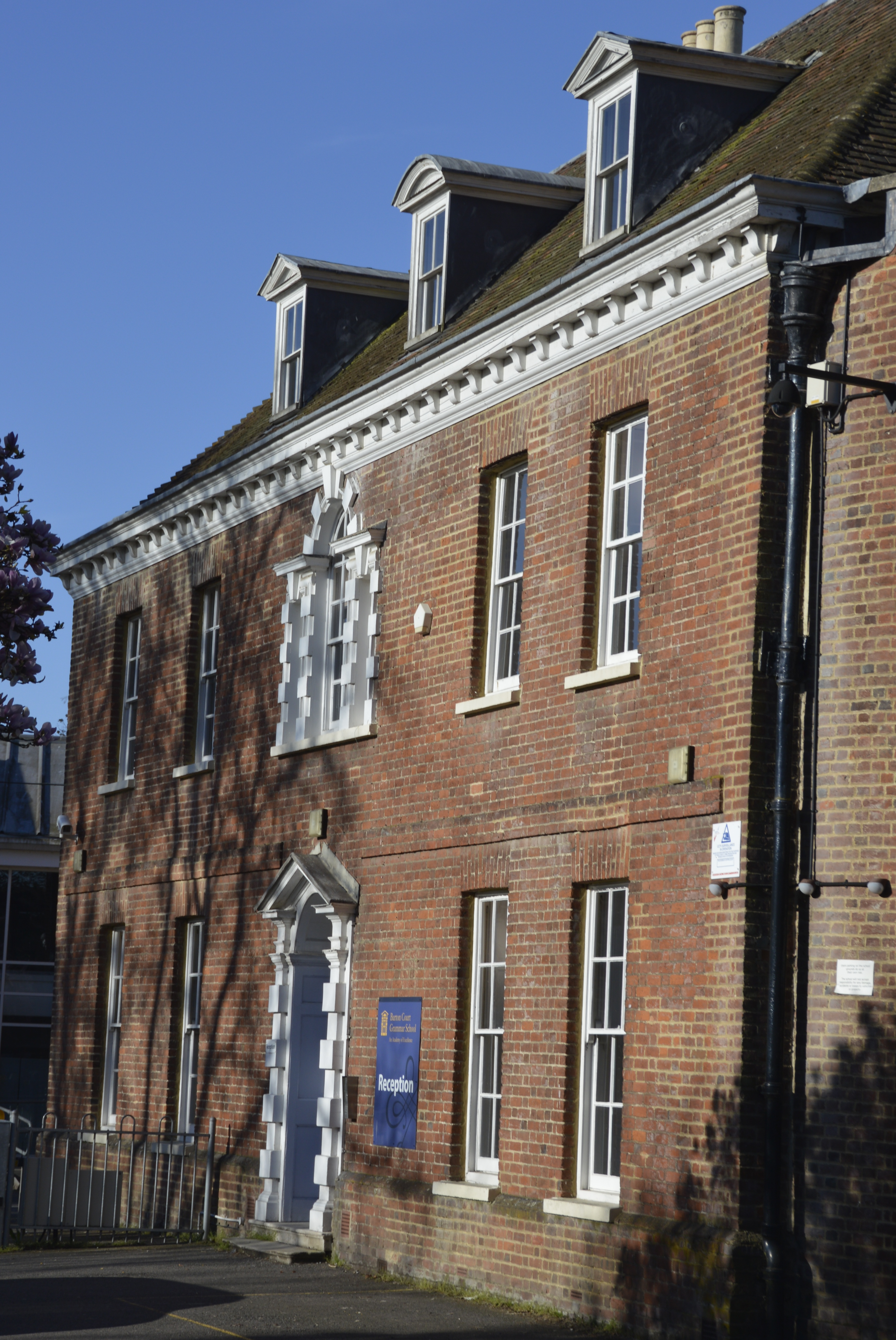 Main building of Barton Court Grammar School in Canterbury, UK.